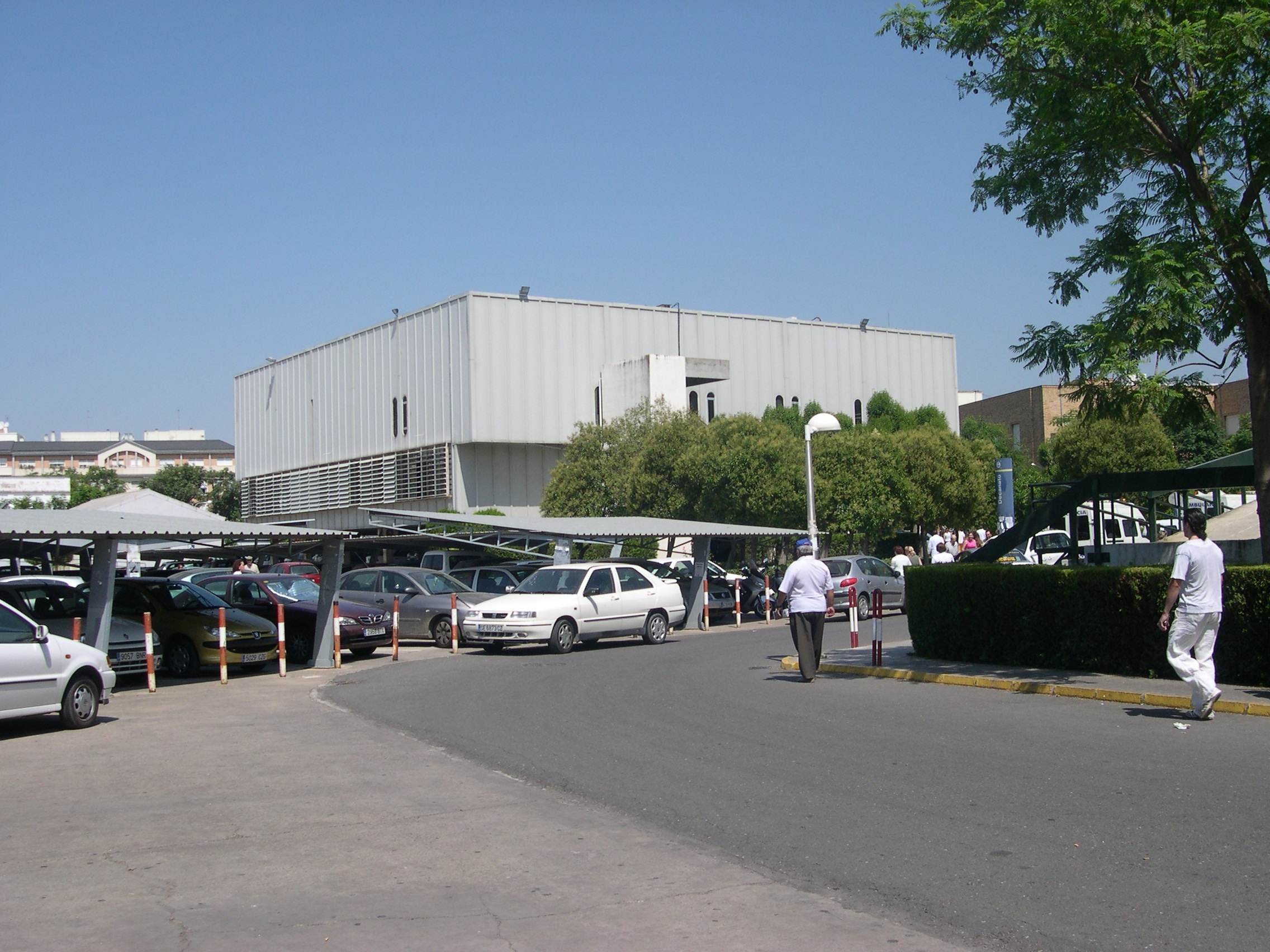 Sevilla University